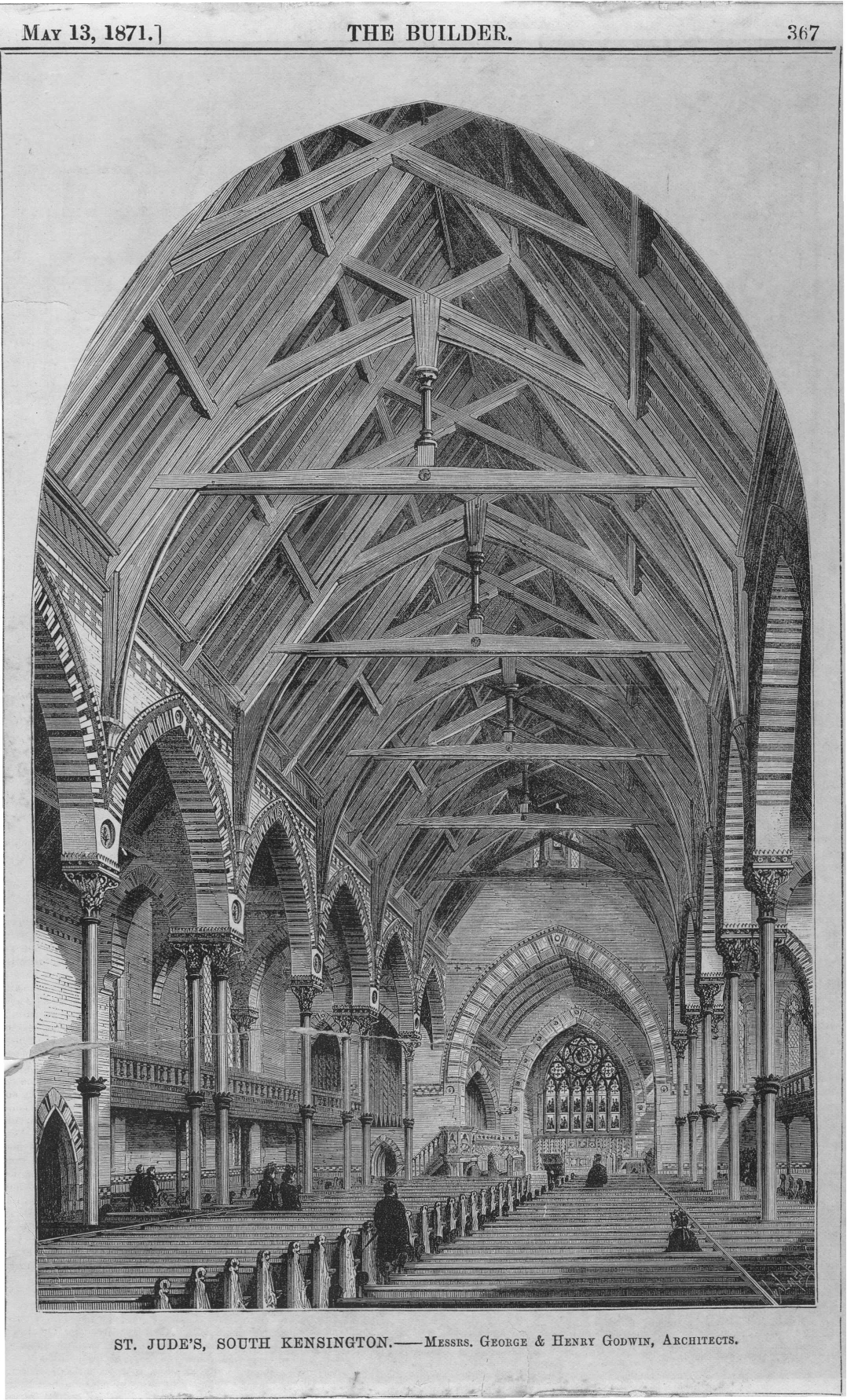 Etching looking east from the Narthex: the north and south Galleries are visible on the left and right, and the Chancel with Pulpit are visible in the distance. Note the patterned brickwork, roundels at high level, banded columns and sheet copper capitals.